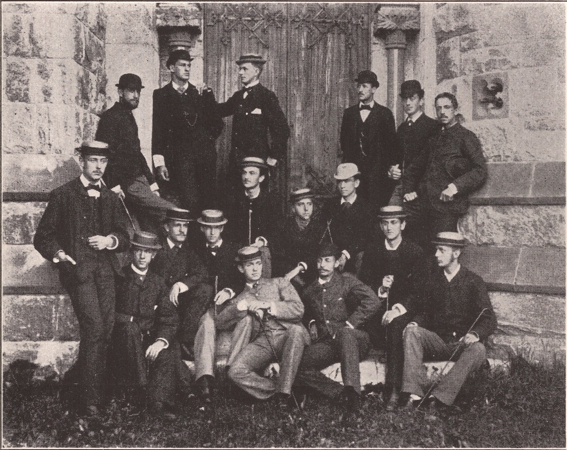 A photo of the Amherst College Glee Club, circa 1880